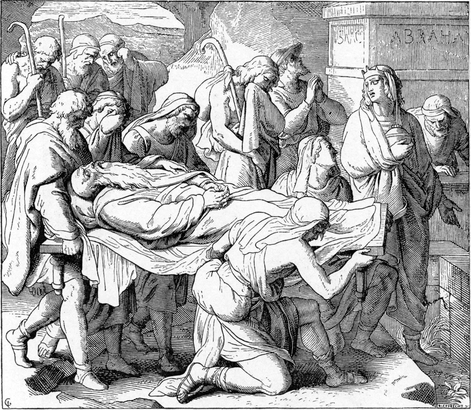 Joseph and His Brothers Carry Jacob Back into the Land of Canaan To Be Buried in the Cave where Abraham and Sarah Were Buried. Caption: "Jacob has died. Joseph and his brothers have carried him back into the land of Canaan, where he used to live, for Jacob told them that he wanted to be buried in that land. So they have carried him to Canaan to bury him in the cave where Abraham and Sarah were buried, and which Abraham bought of Ephron for four hundred pieces of silver. Joseph and his brothers went back to Egypt, and lived there, after they had buried their father. When Joseph was one hundred and ten years old he died. His brothers died also, but their children lived and became a great many people." Illustration from the 1897 Bible Pictures and What They Teach Us: Containing 400 Illustrations from the Old and New Testaments: With brief descriptions by Charles Foster